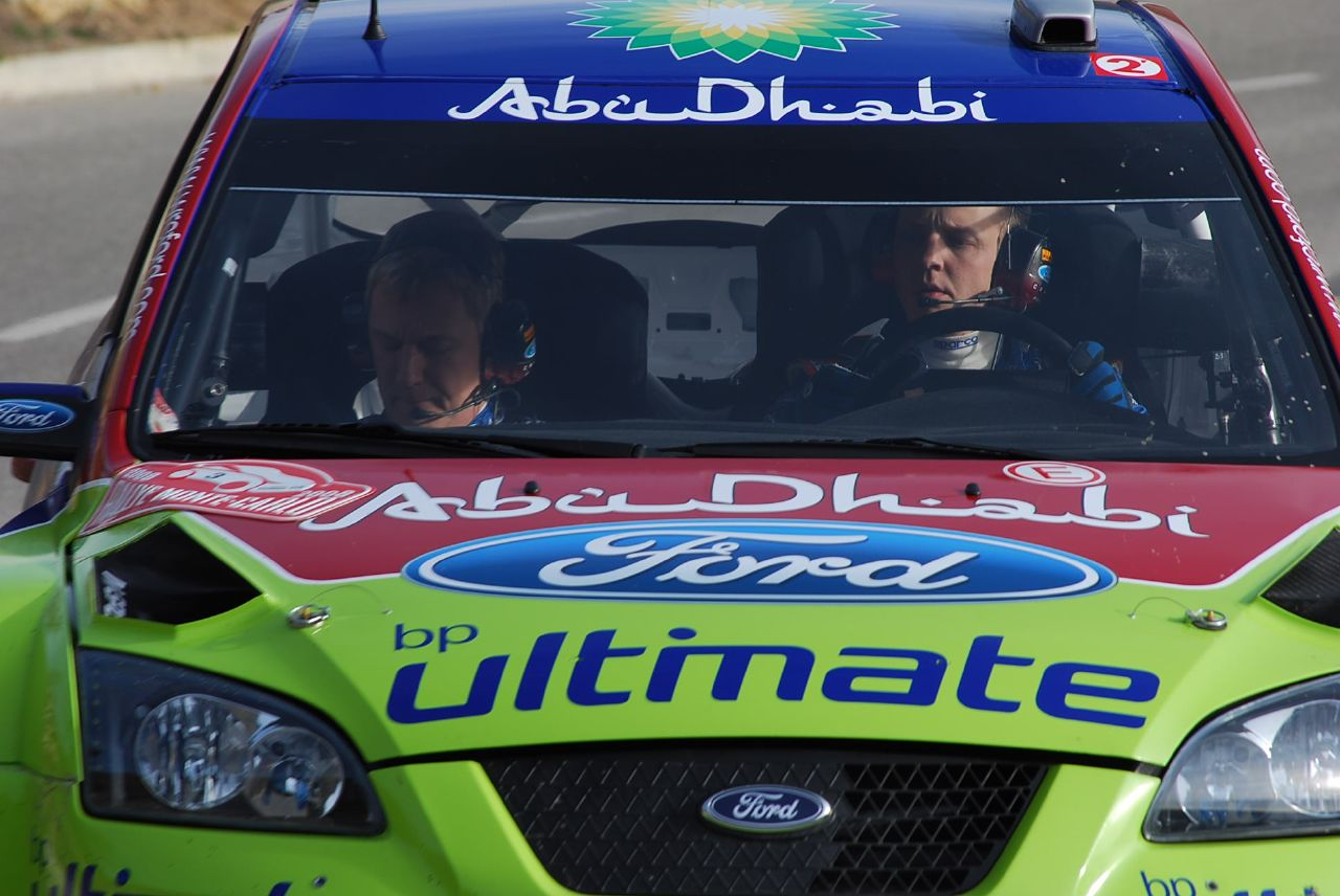 Mikko Hirvonen driving his Ford Focus RS WRC 07 on a road section during the 2008 Monte Carlo Rally.